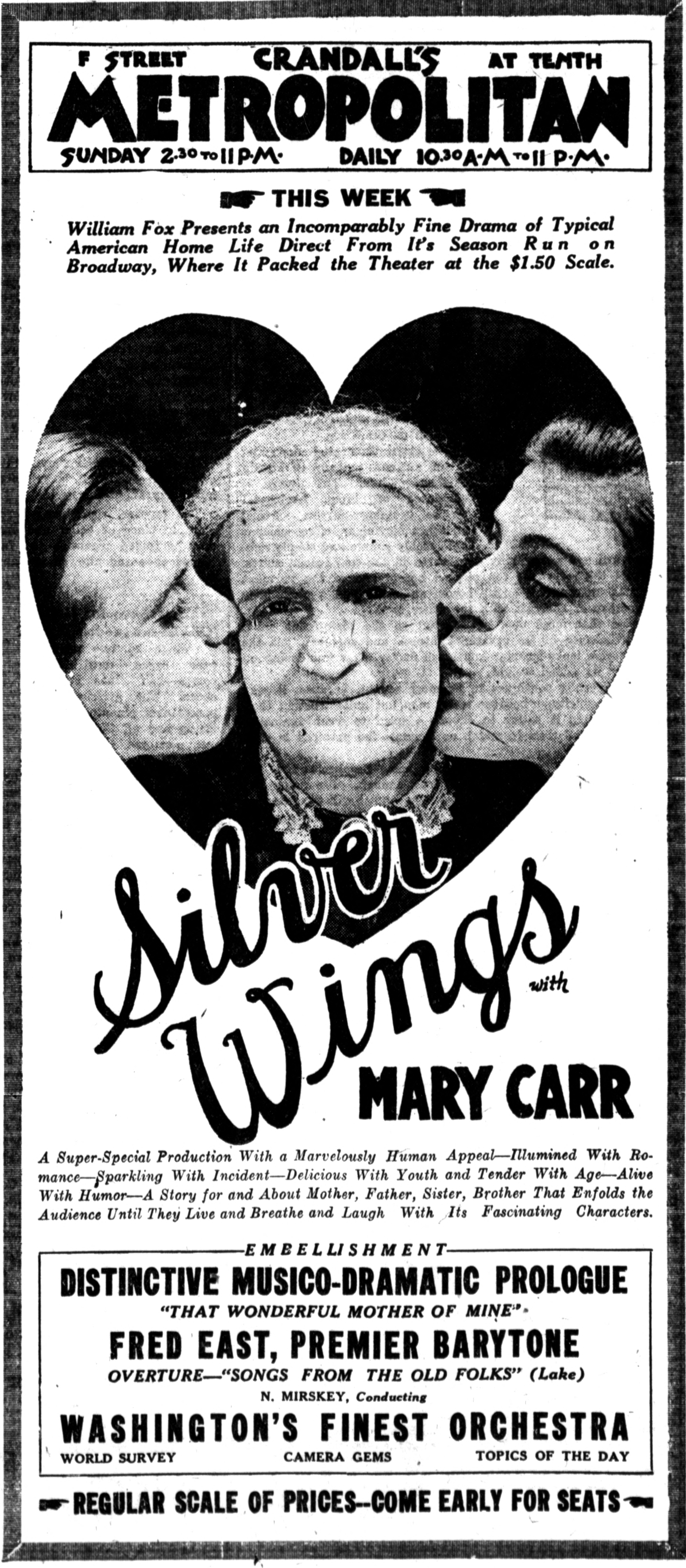 Advertisement for the American drama film Silver Wings (1922) with Mary Carr, from a Washington DC newspaper from 1922.